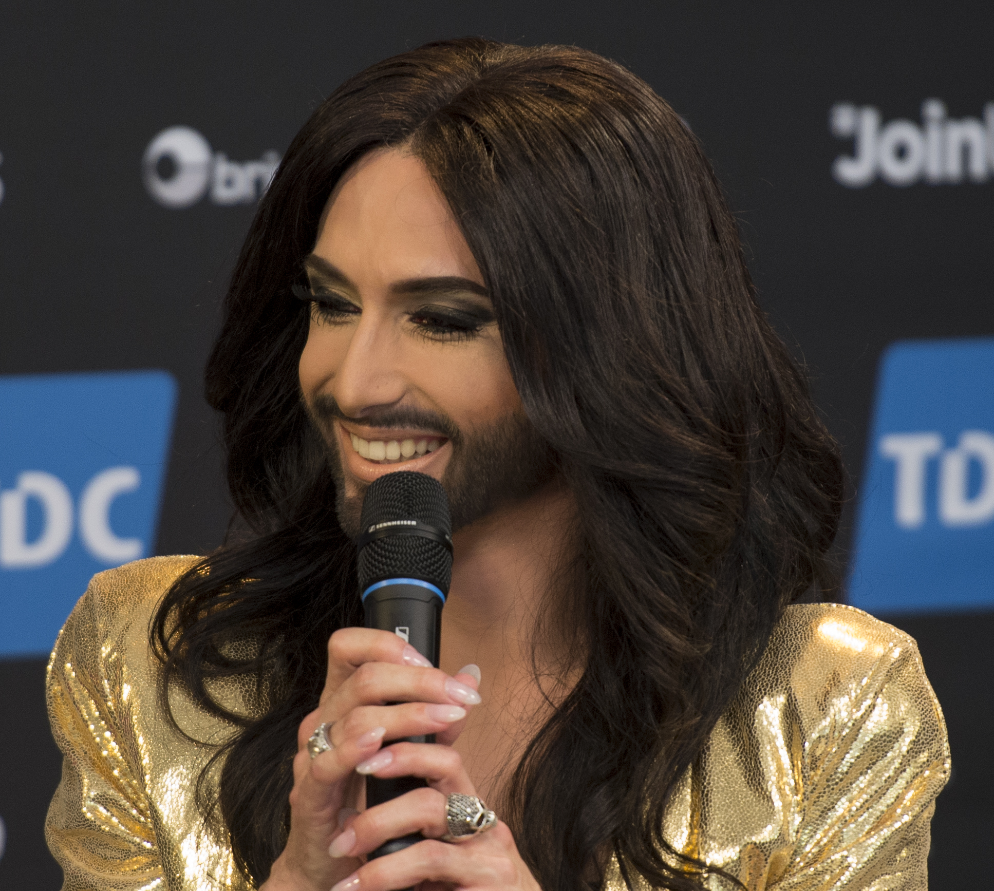 Conchita Wurst at a Meet & Greet during the Eurovision Song Contest 2014 Copenhagen. (Help translate this text)